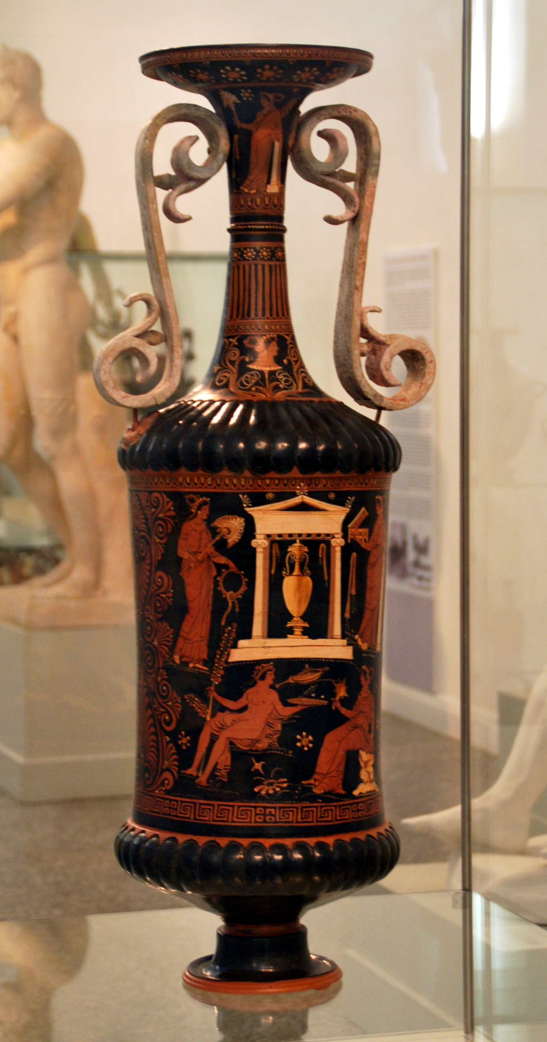 Huge apulian red-figure Loutophoros, Site A by the Underworld painter depicts an the vase body the rape of Cephalos by goddess Eos, on the neck a female head in flower calyx, Site B by the Painter of MNB 1148 depicts on the body a Naiskos scene, on the upper neck a woman wearing a Chiton and a coat, on the lower neck a female head facing to the right; ca. 330 BC; Antikensammlung Kiel, inventory number B 787.